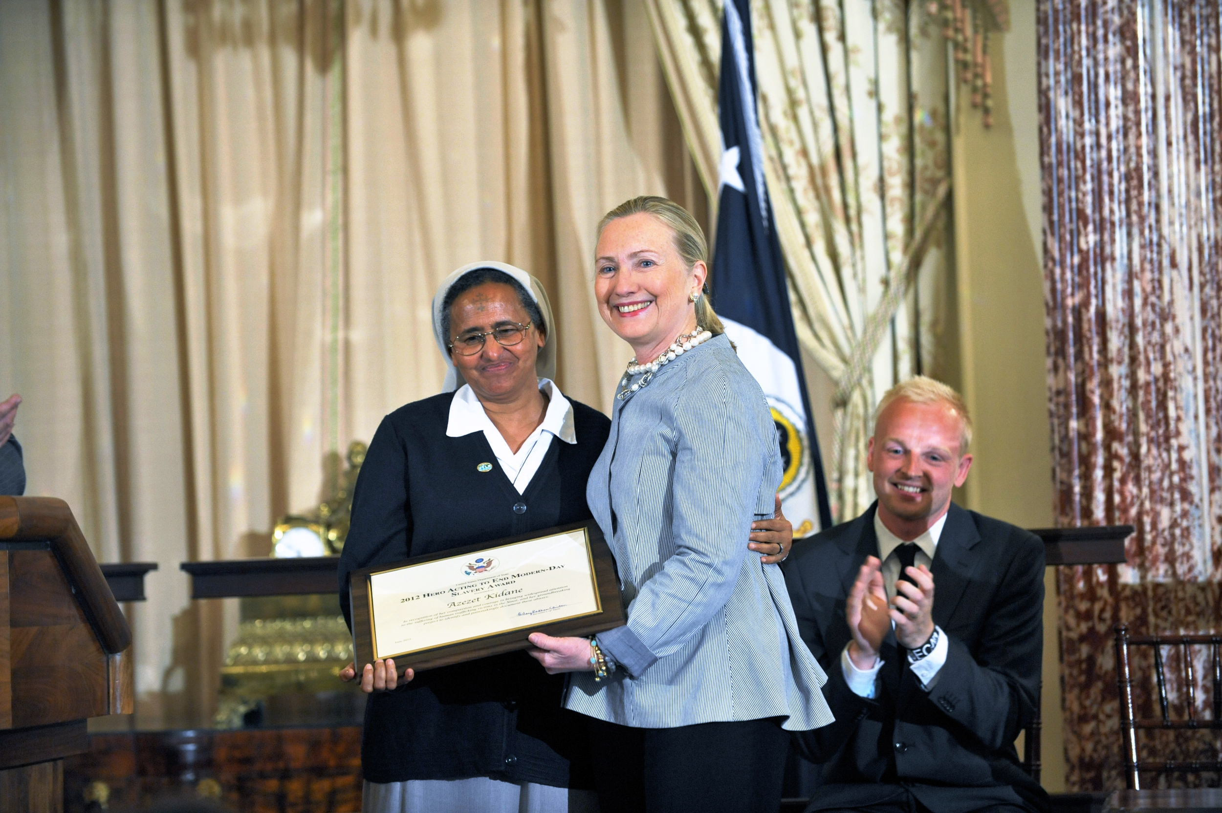 U.S. Secretary of State Hillary Rodham Clinton honors Azezet Habtezghi Kidane of Israel, a 2012 Trafficking in Persons (TIP) Report Hero, at the U.S. Department of State in Washington, D.C., on June 19, 2012. [State Department photo/ Public Domain]